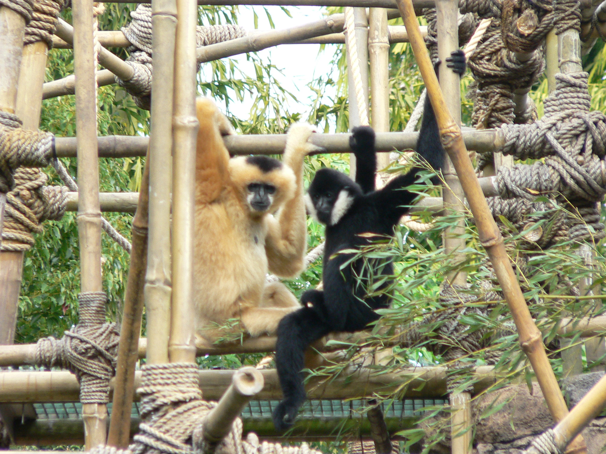 Female and male White-cheeked Crested Gibbon in Disney's Animal Kingdom.